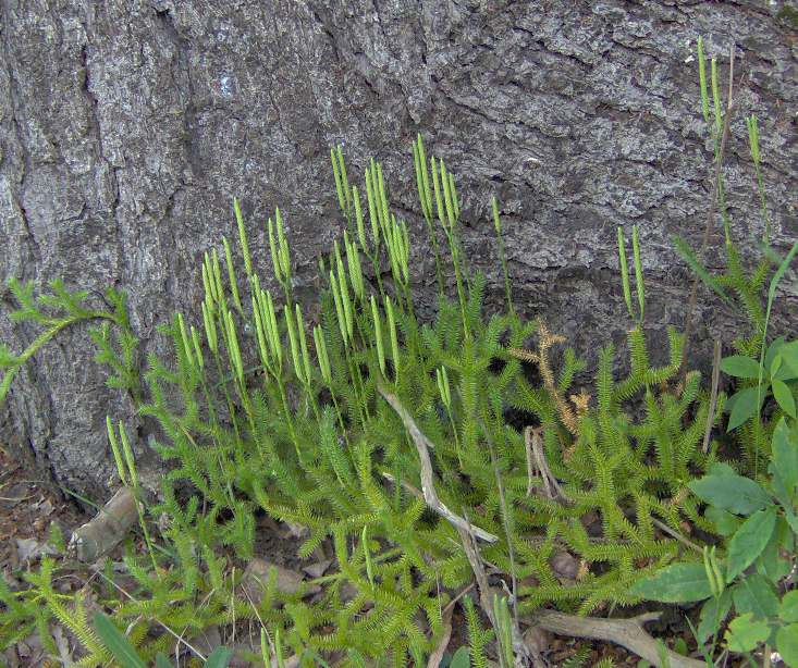 Lycopodium clavatum, taken August, 2006 by John Knouse, in South Laurel Fork Wilderness, West Virginia